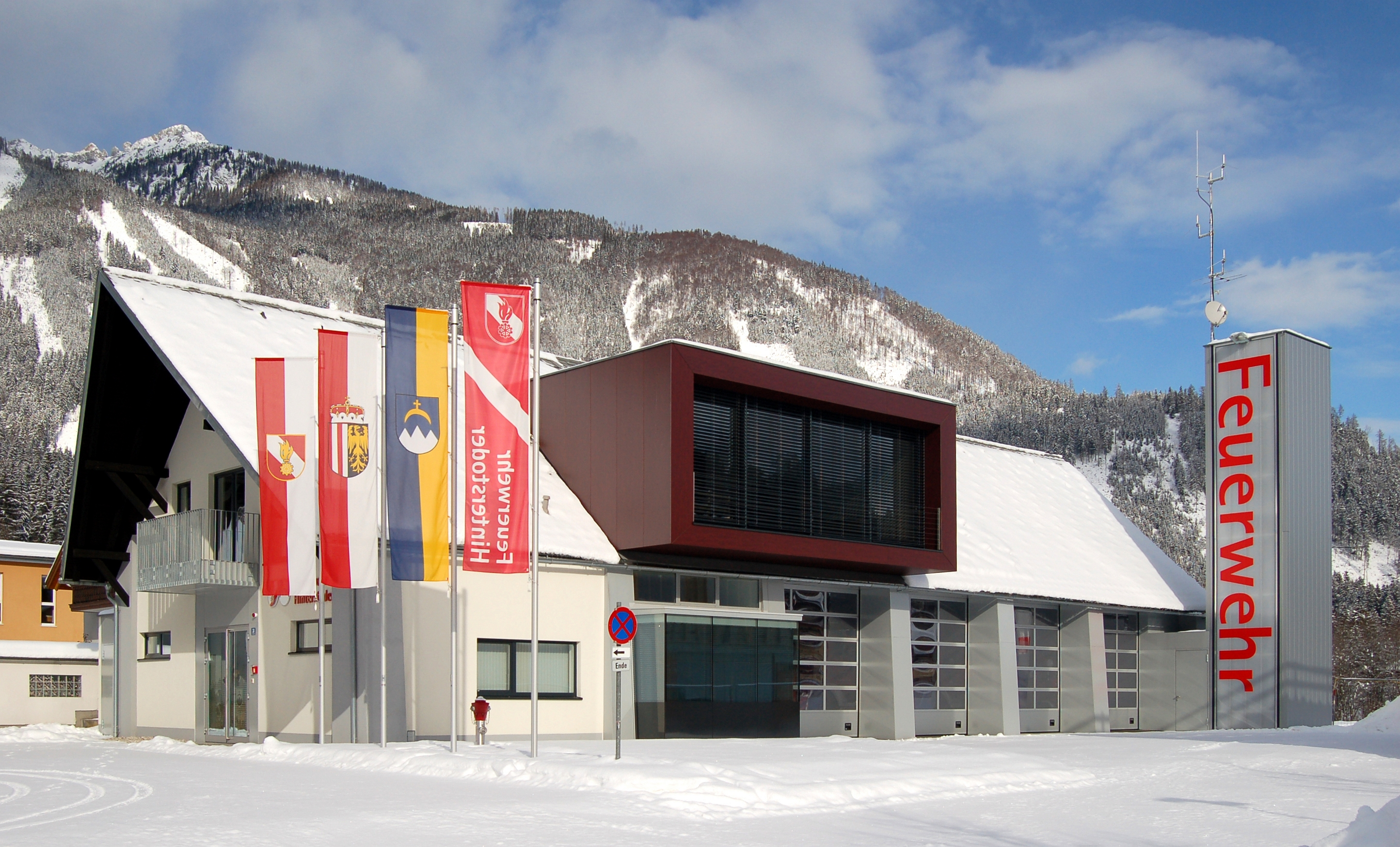 The auxiliary fire brigade building in Hinterstoder, Upper Austria.